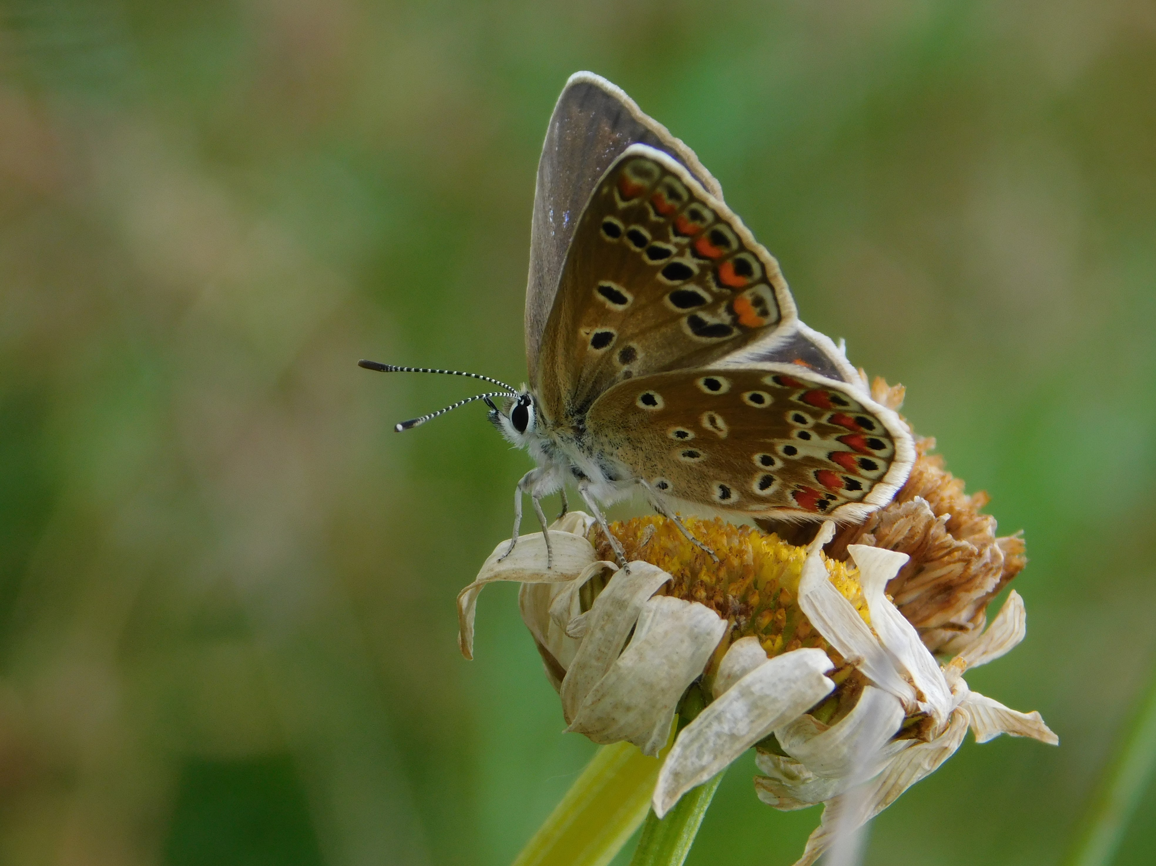 A female European common blue butterfly (Polyommatus icarus) perched on withered dandelion flower in Greater Montreal, Quebec, Canada.